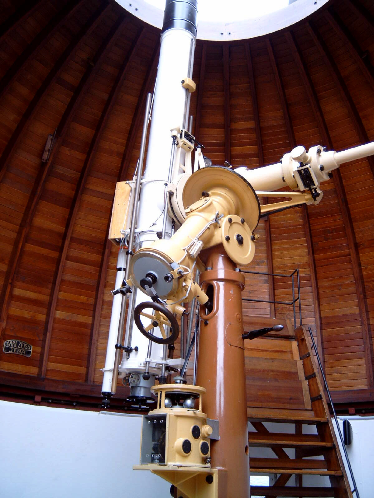 Refracting telescope in the observatory in Aachen